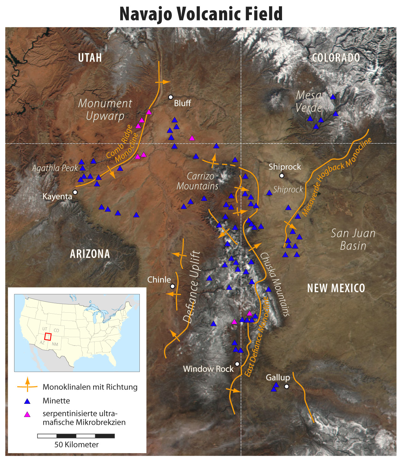 Map of the Navajo Volcanic Field Explanation: monoclines with direction minettes serpentinized ultramafic microbreccias